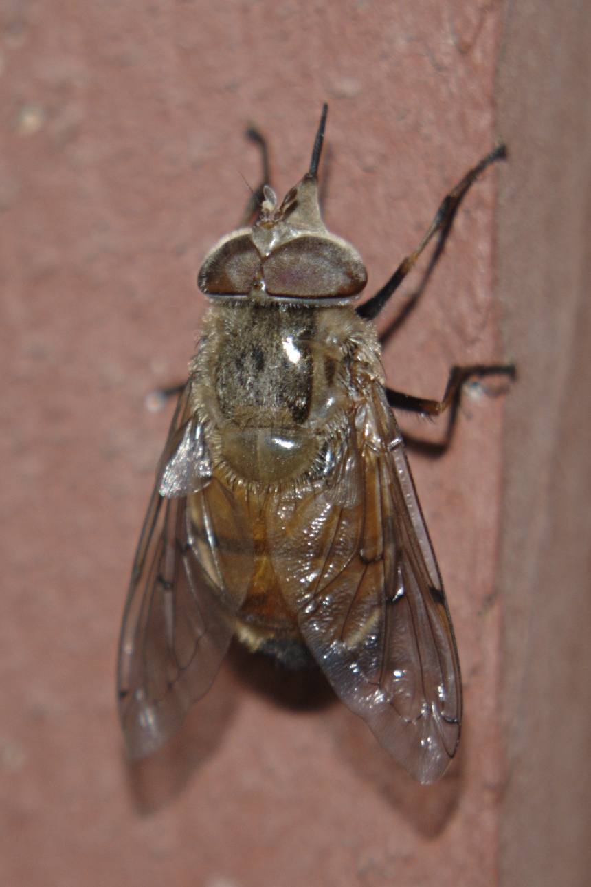 Hover fly, Copestylum haagei, about 17 mm long, on my porch, Española, New Mexico. Thanks to Martin Hauser at ] for identification.